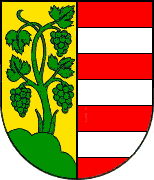 Coat of arms of Modra, Slovakia